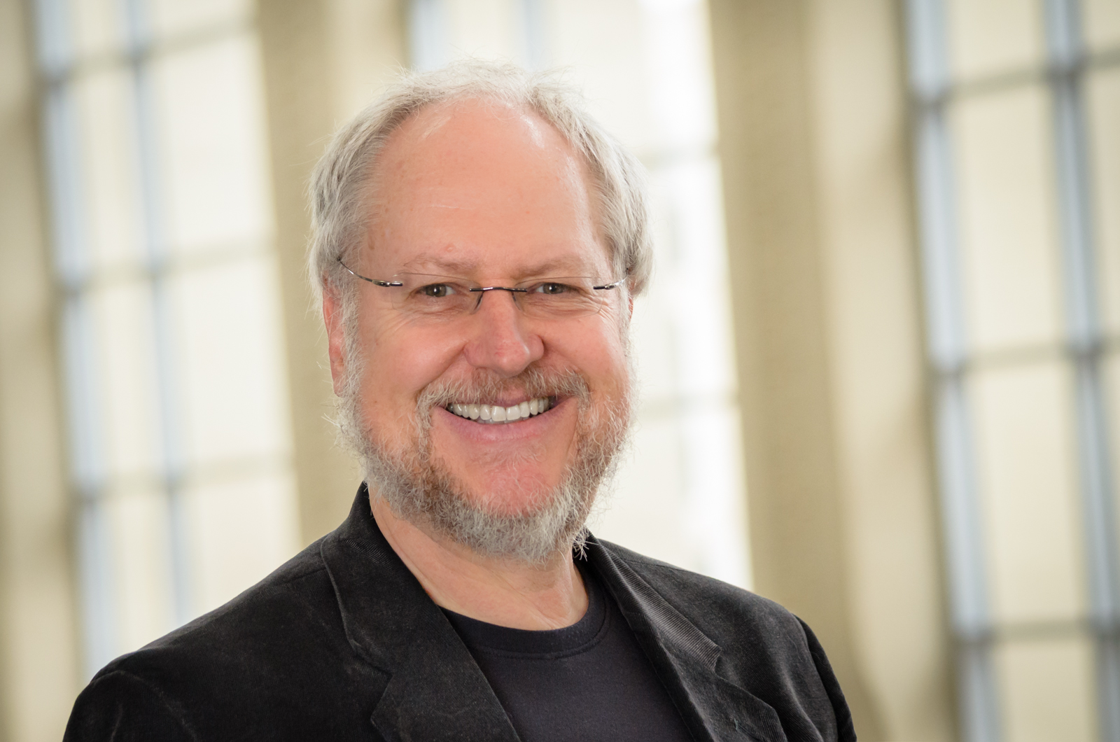 Douglas Crockford at the 2013 NC GIS Conference, Raleigh Convention Center, Raleigh, NC.